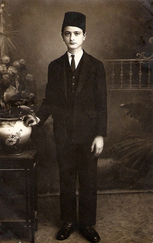 Ahmed Adnan Saygun (young) – Turkish composer, in Izmir